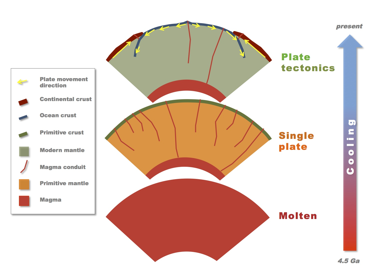 Simple illustration of Earth's tectonic evolution over time. The timing of modern plate tectonics is uncertain.